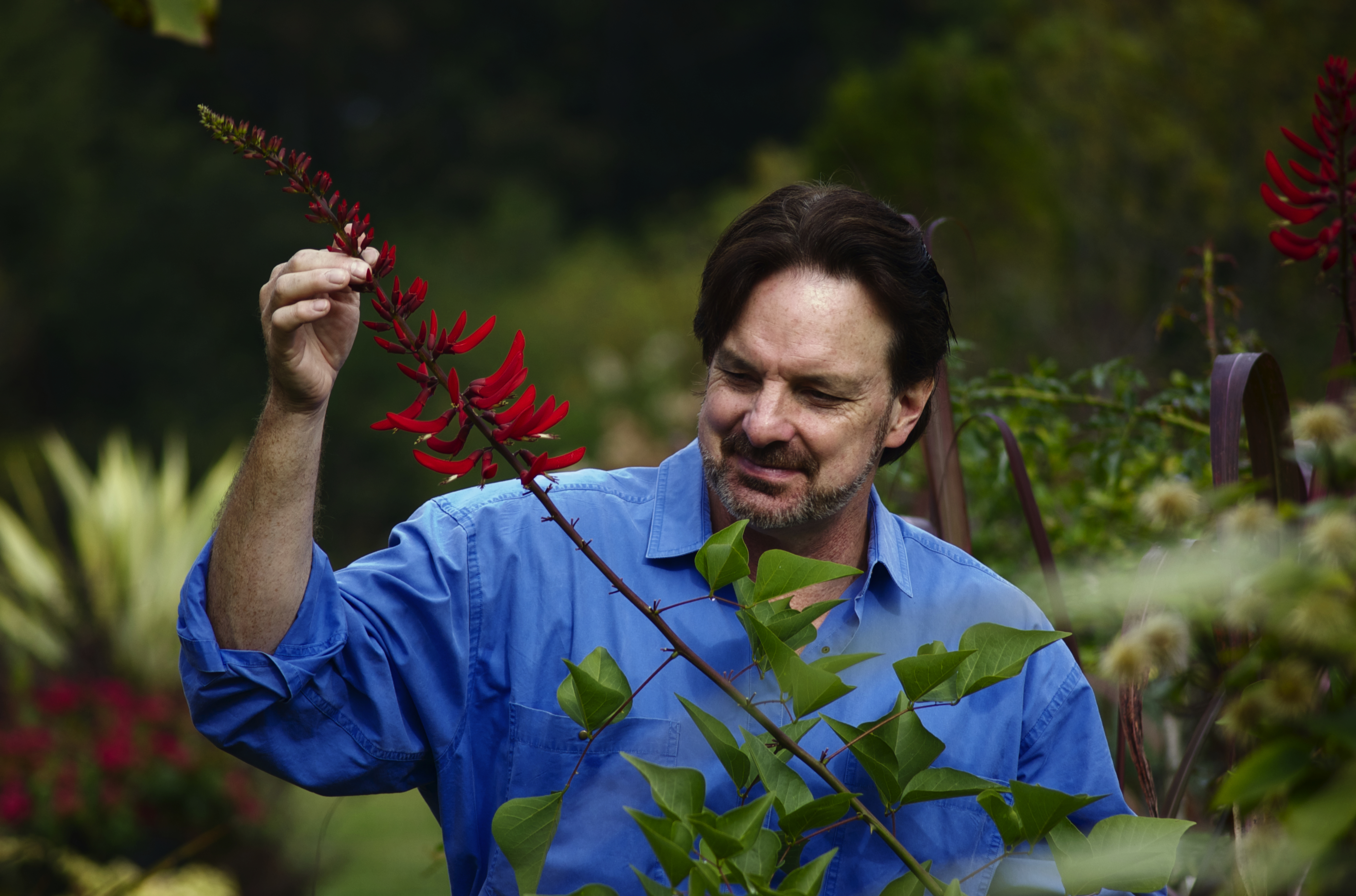 Louis Raymond, garden designer and horticulturalist, has created a 1.5 acre garden so that he can experiment with the limits of the possible in ornamental horticulture in Climate Zone 7 in southern New England. Erythrina x bidwillii is an Argentinian species of tree that can be grown as a coppiced specimen that is Summered in the garden and returned to shelter for the Winter. A two-foot spike of vermillion flowers is produced at the tip of every stem.